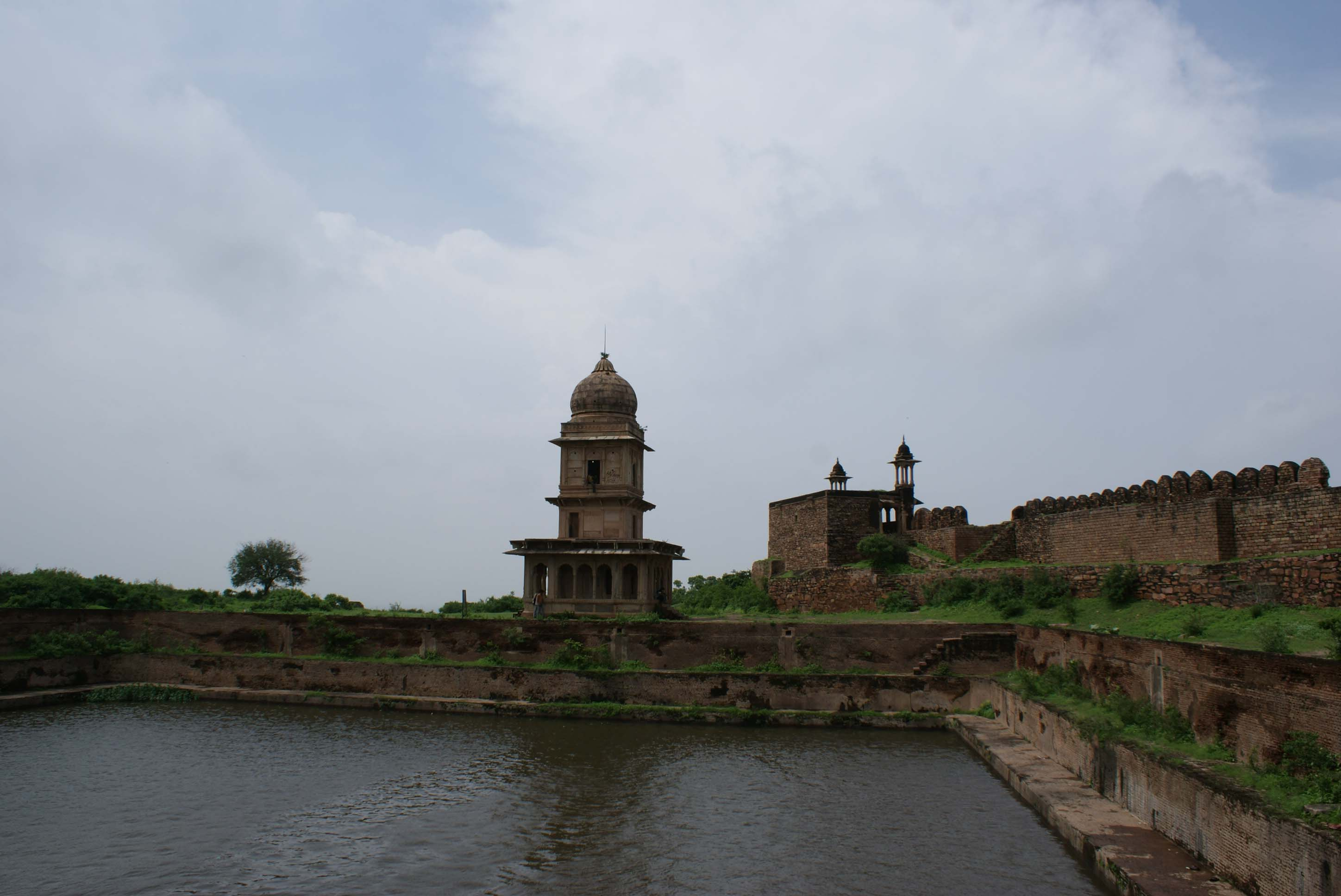 Gwalior fort water pool